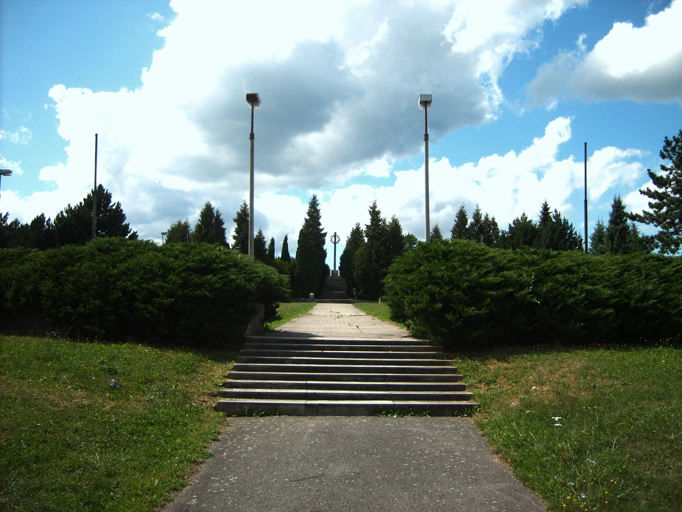 Burial mound of 232 victims of death march in Tachov.